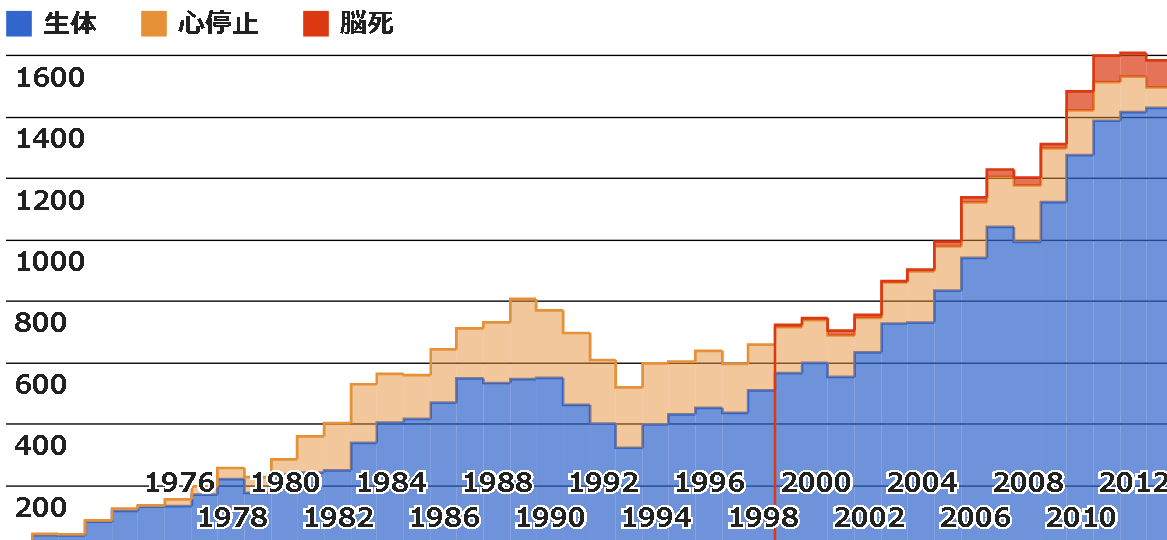 Changes in number of renal transplantations (Japan)